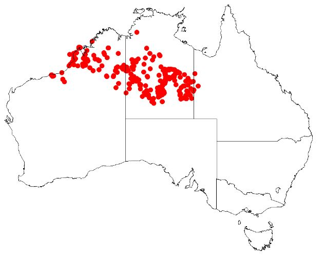 Hakea macrocarpa Occurrence data downloaded from AVH on 22 November 2018 using